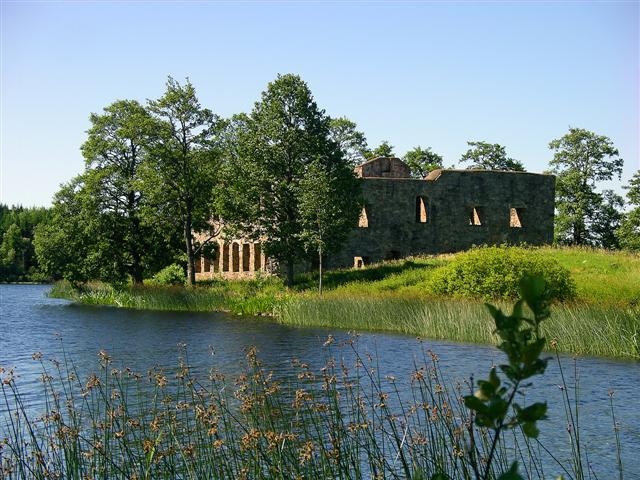 Eksjöhovgård, a castle ruin outside of Sävsjö in Jönköping County, Sweden.